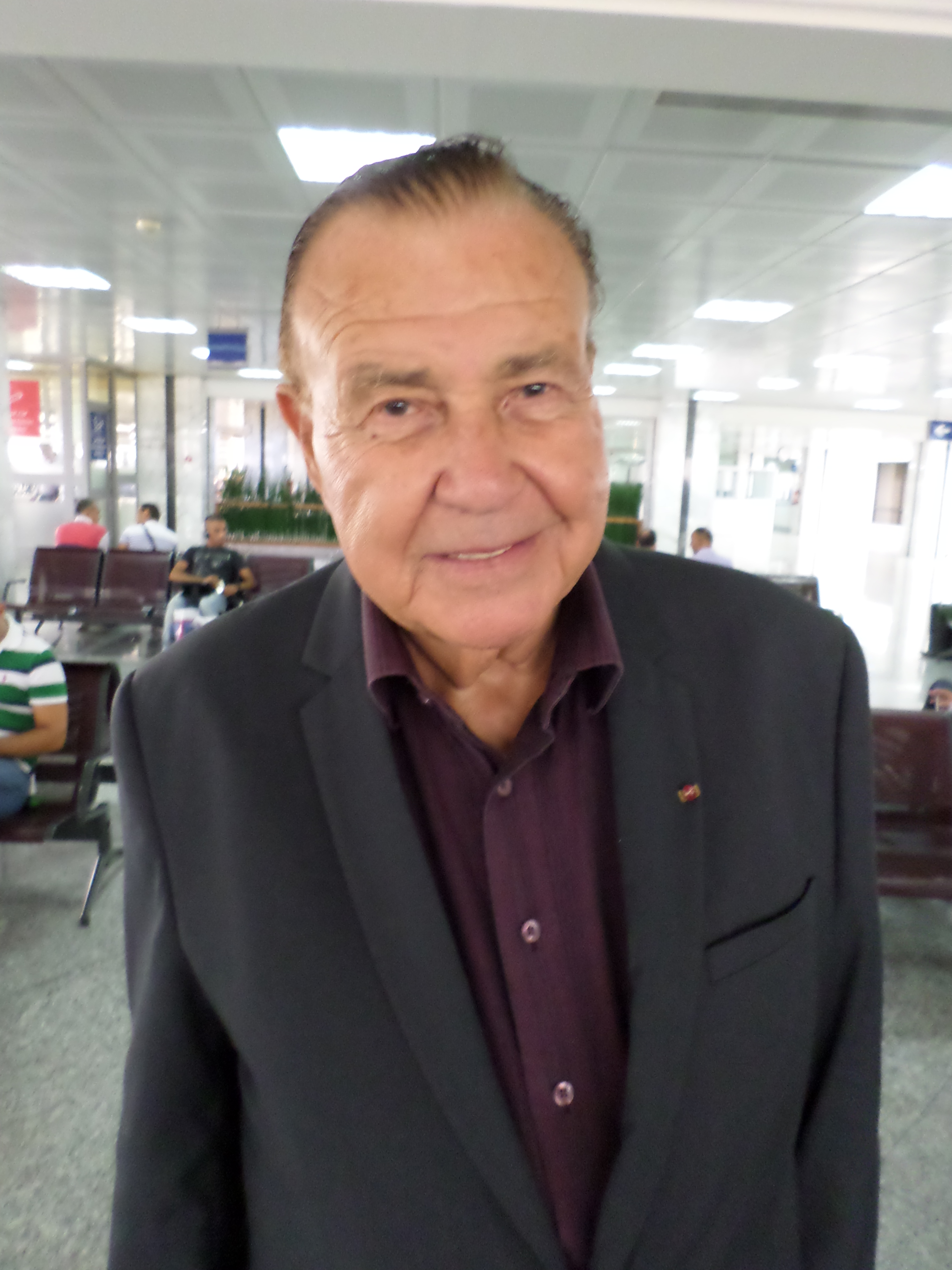 Tahar Belkhodja (1931- ), former Tunisian minister